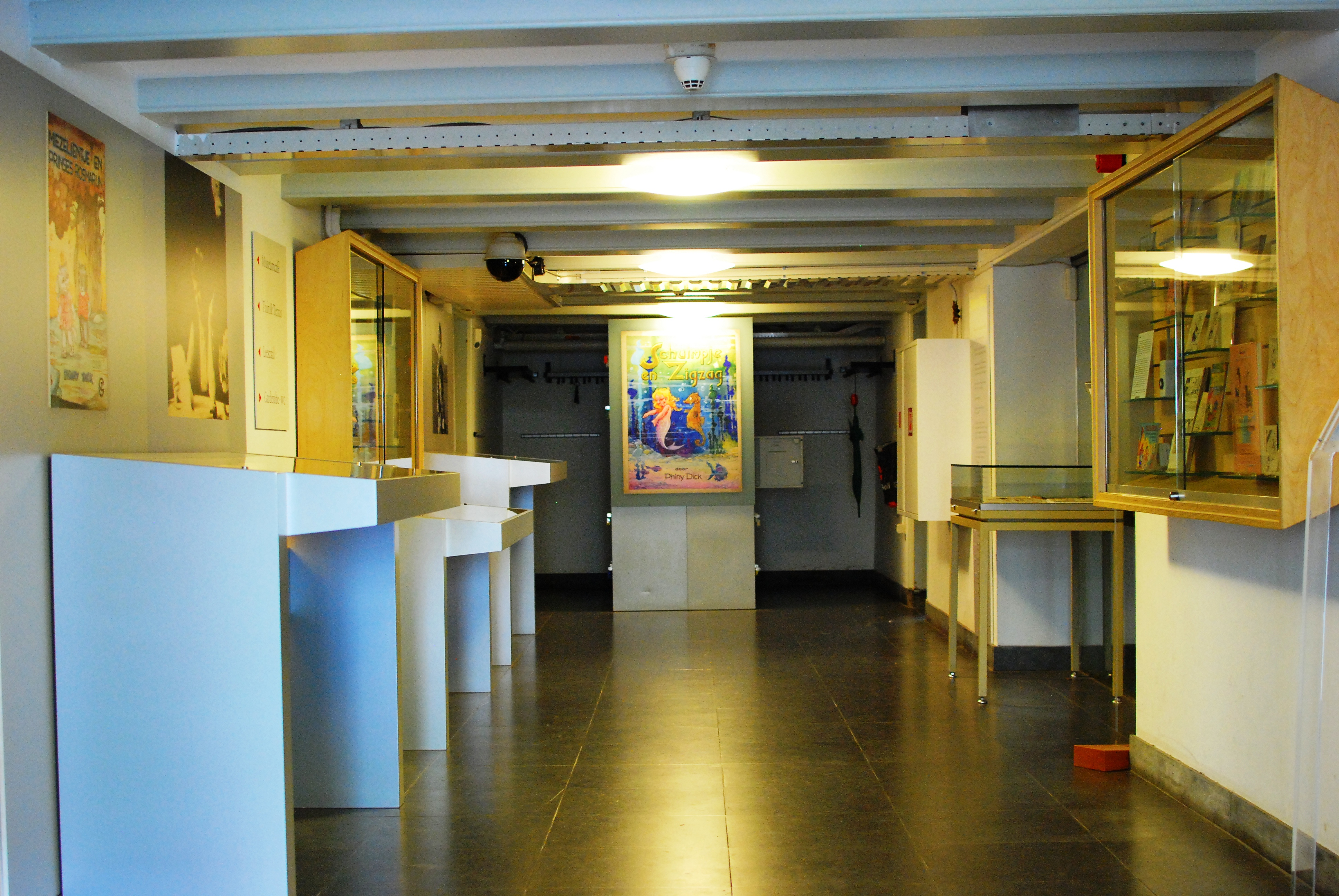 Exhibition room in the basement of Museum Meermanno (Special exhibtion May to September 2012: Phiny Dick), Prinsessegracht 30, Den Haag.